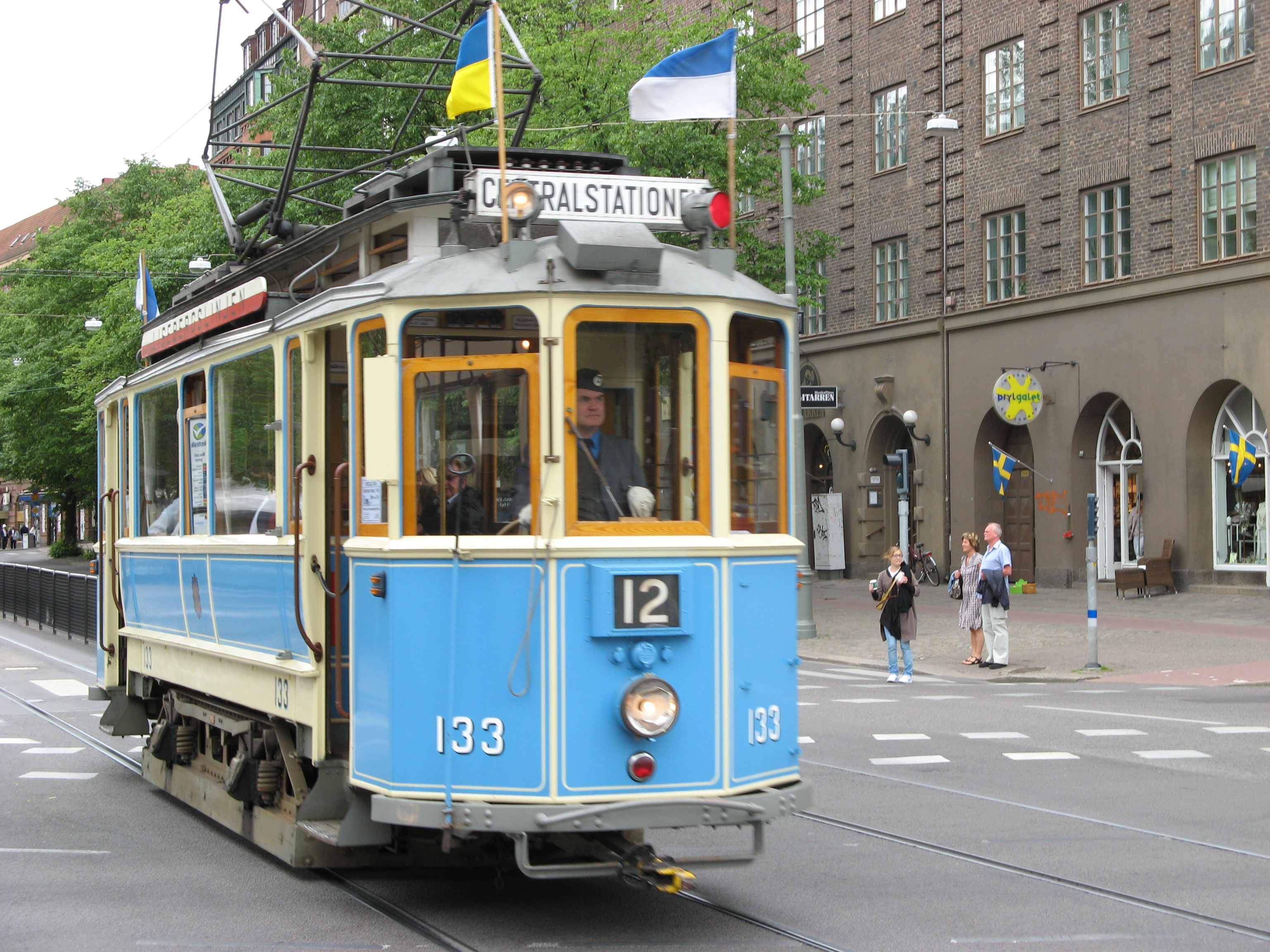 Old tram in Gothenburg.